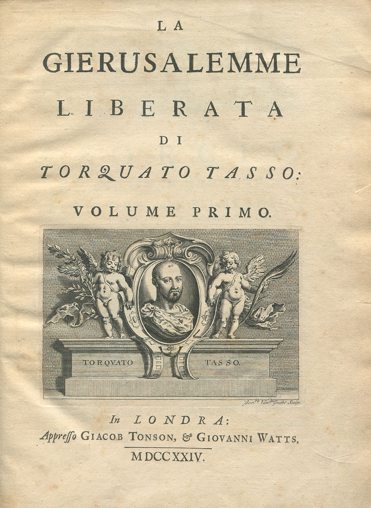 Title page of a 1724 edition in Italian printed in England of Tasso's Jerusalem Liberated